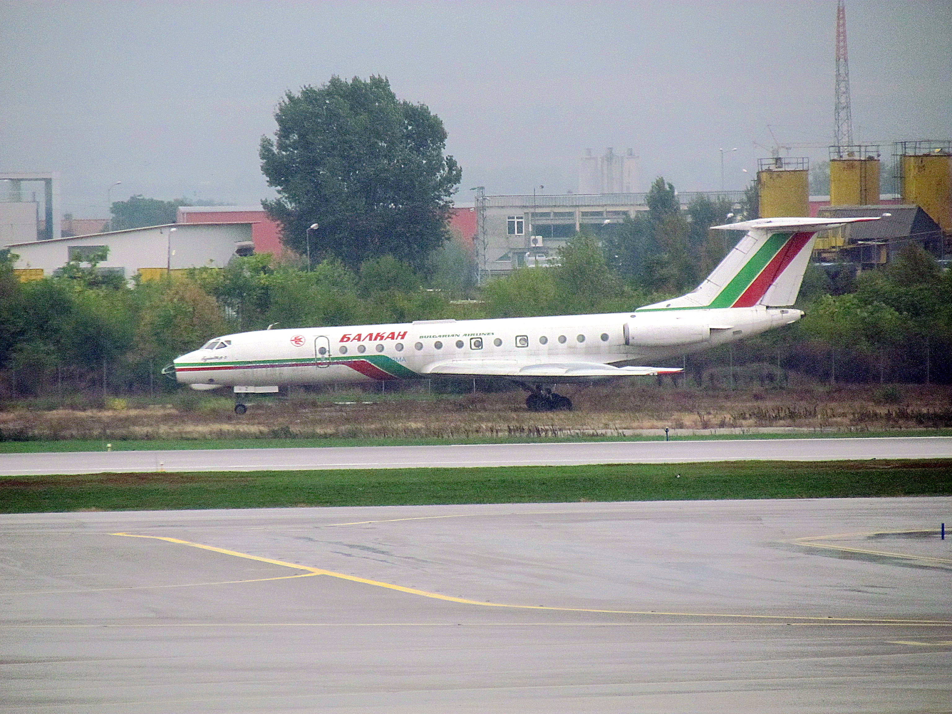 Balkan Bulgarian Airlines Tu-134 A, Sofia aerport, October 2015